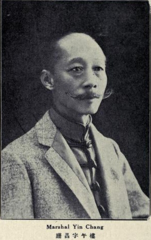 Yinchang, Wulou (1859 - 1928)